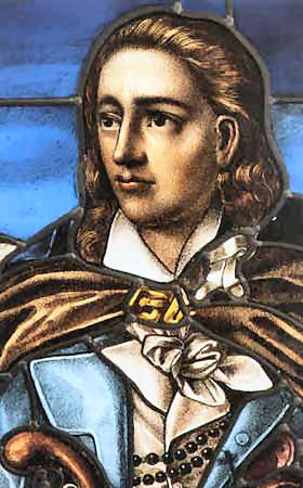 Stained glass window of the Notre-Dame church of Beaupréau presenting a portrait of general Jacques Cathelineau